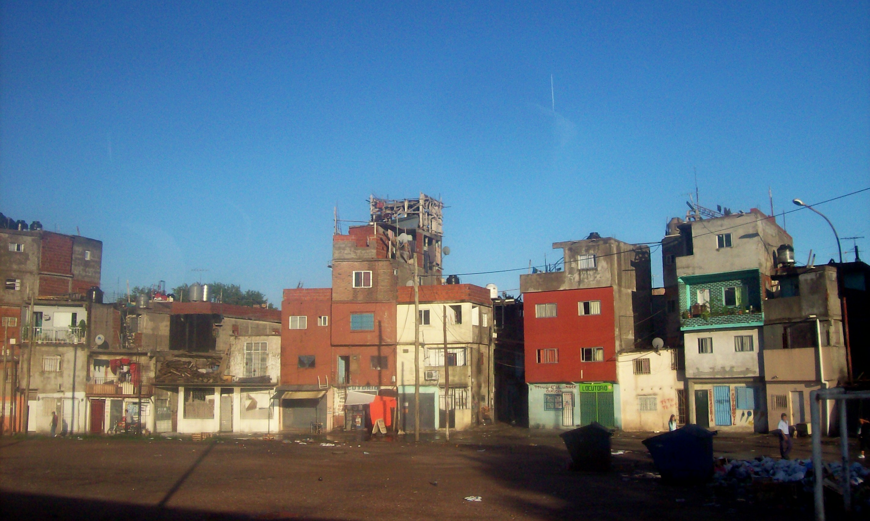 Villa 31 (Slum) , in Barrio de Retiro, Buenos Aires, Argentina